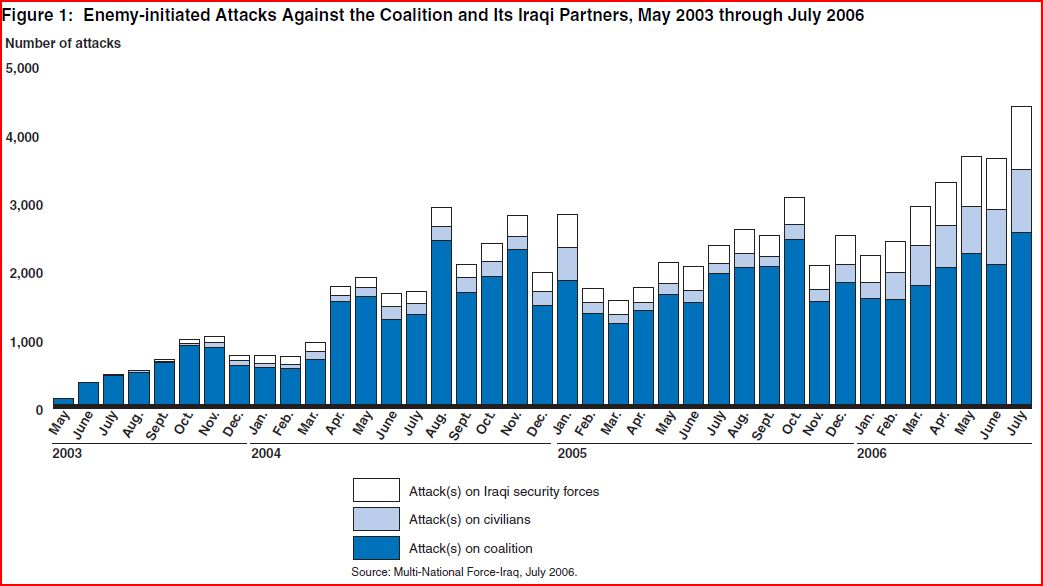 Enemy-initiated Attacks Against the Coalition and Its Iraqi Partners, May 2003 through July 2006. Source: Multi-National Force - Iraq, July 2006